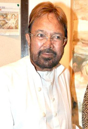 Rajesh Khanna at Prithvi Soni's exhibition